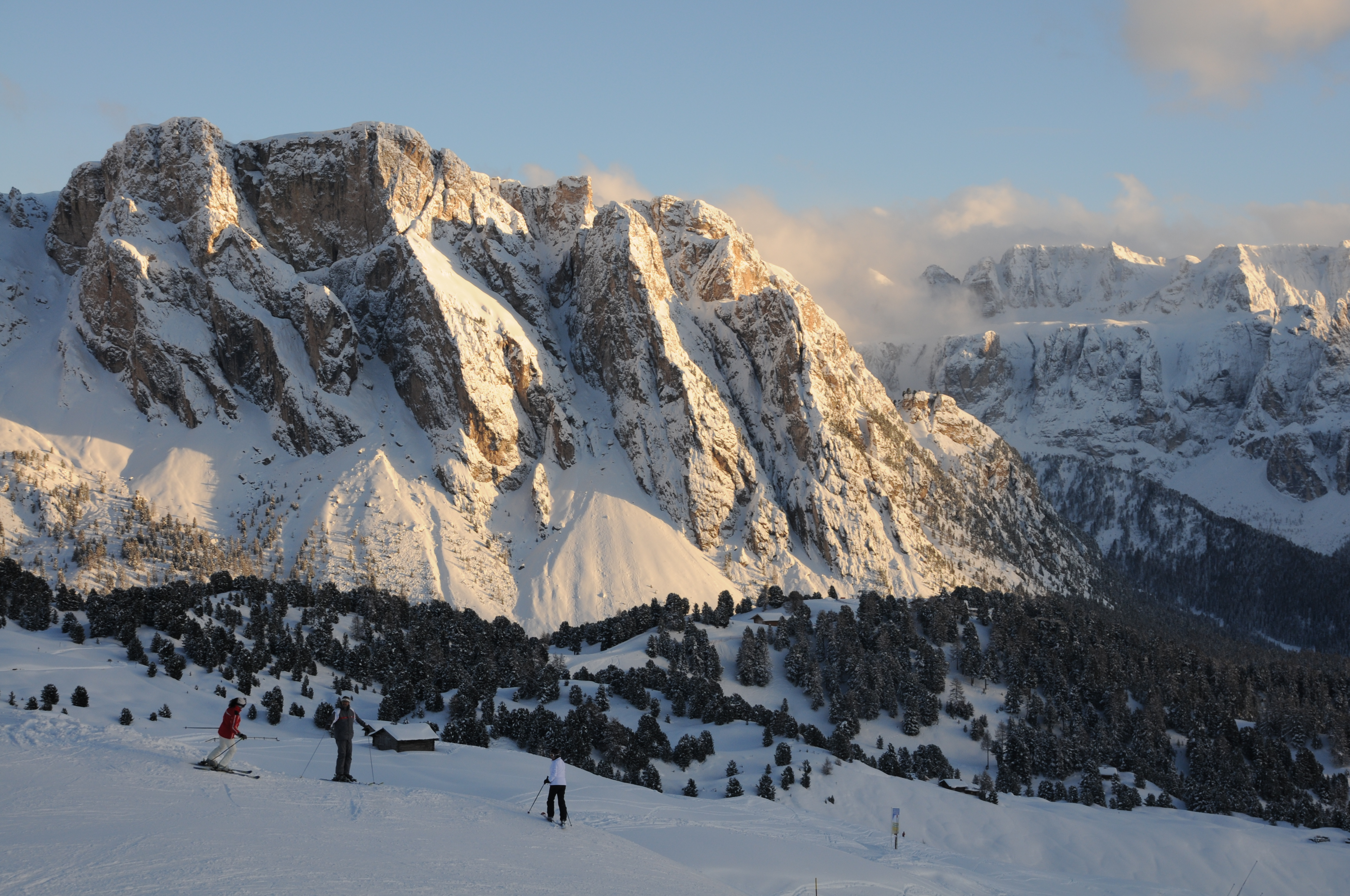 Snow on the Stevia in Val Gardena - From left to right: Stevia and Sella - view from Seceda.